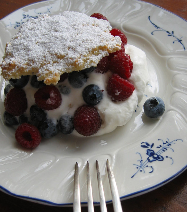 This dessert is called "Almond and Mixed Berry Shortcakes". The recipe is by Priscilla Martel and can be found here: Almond and Mixed Berry Shortcakes online recipe. The picture was taken by Priscilla Martel and is used with permission. Questions? Email Ms. Martel at